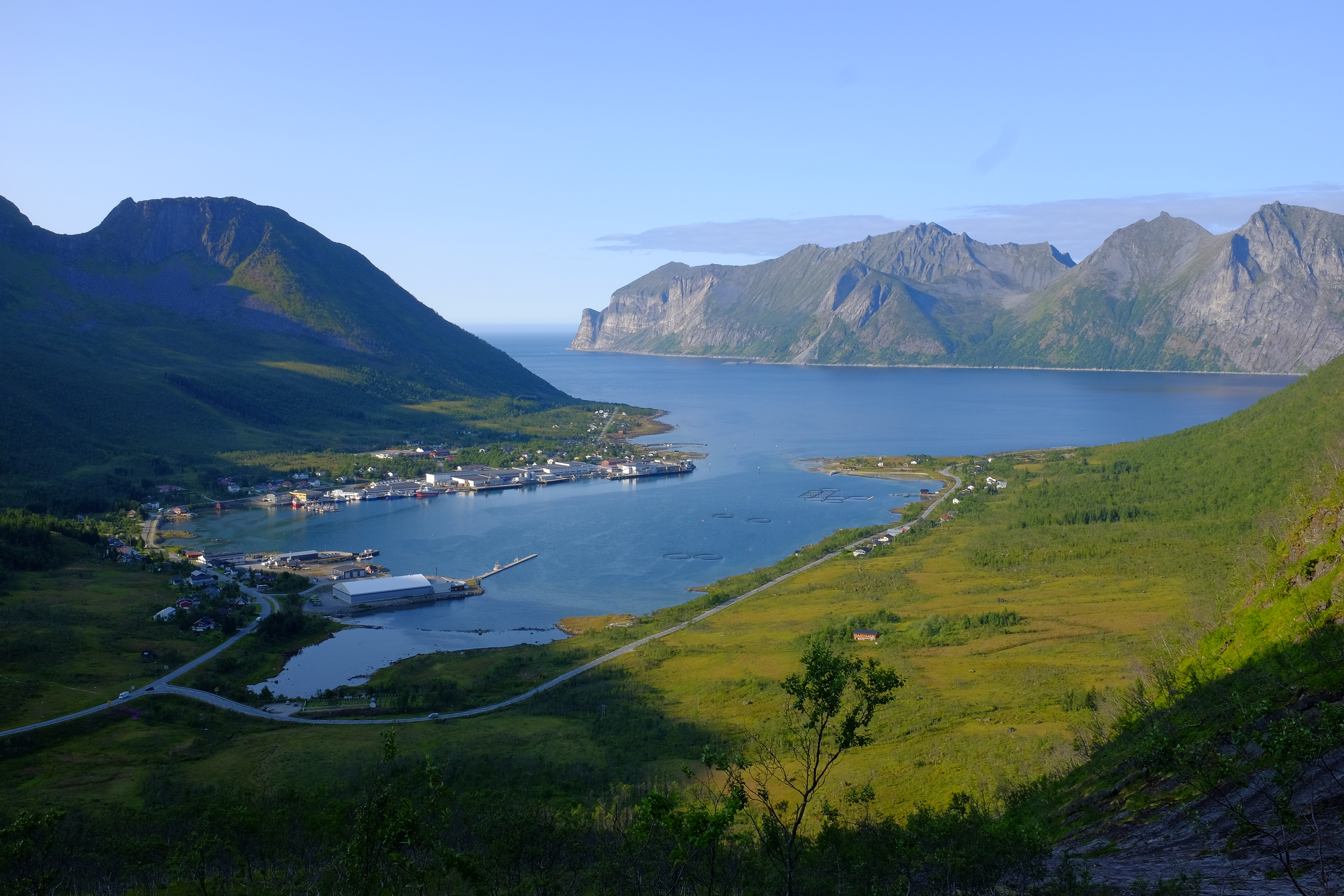 Senjahopen is a village in Berg in Troms. The village has 302 inhabitants as of 1 January 2018. The Senjahopen is shielded from the weather.